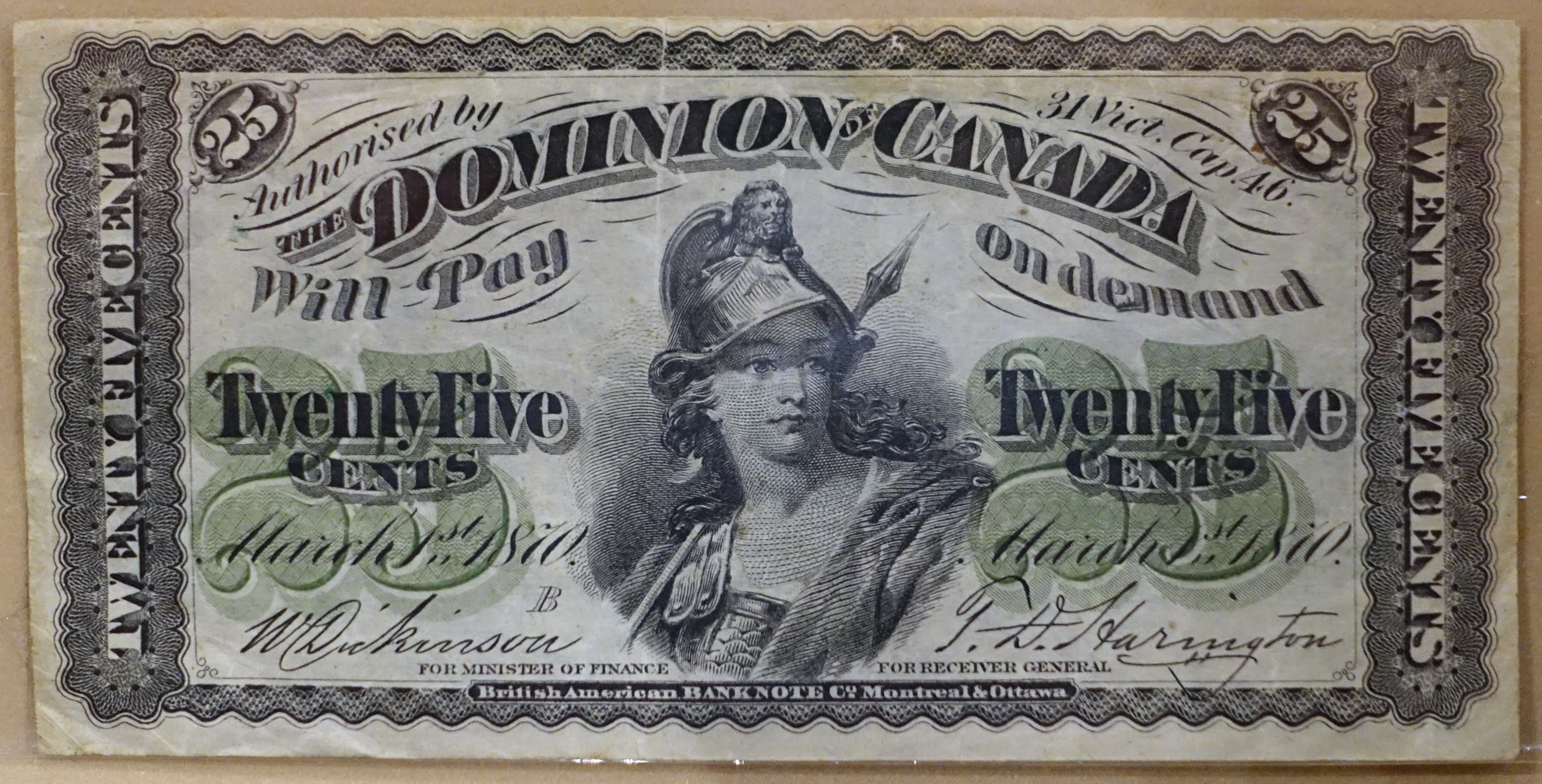 Exhibit in the Bank of Montréal Museum - Bank of Montreal, Main Montreal Branch - 119, rue Saint-Jacques, Montreal, Quebec, Canada.